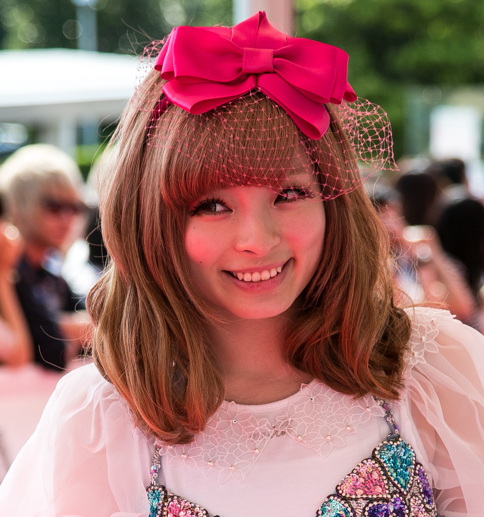 Japanese singer Kyary Pamyu Pamyu at the 2014 MTV Video Music Awards Japan, 14 June 2014.